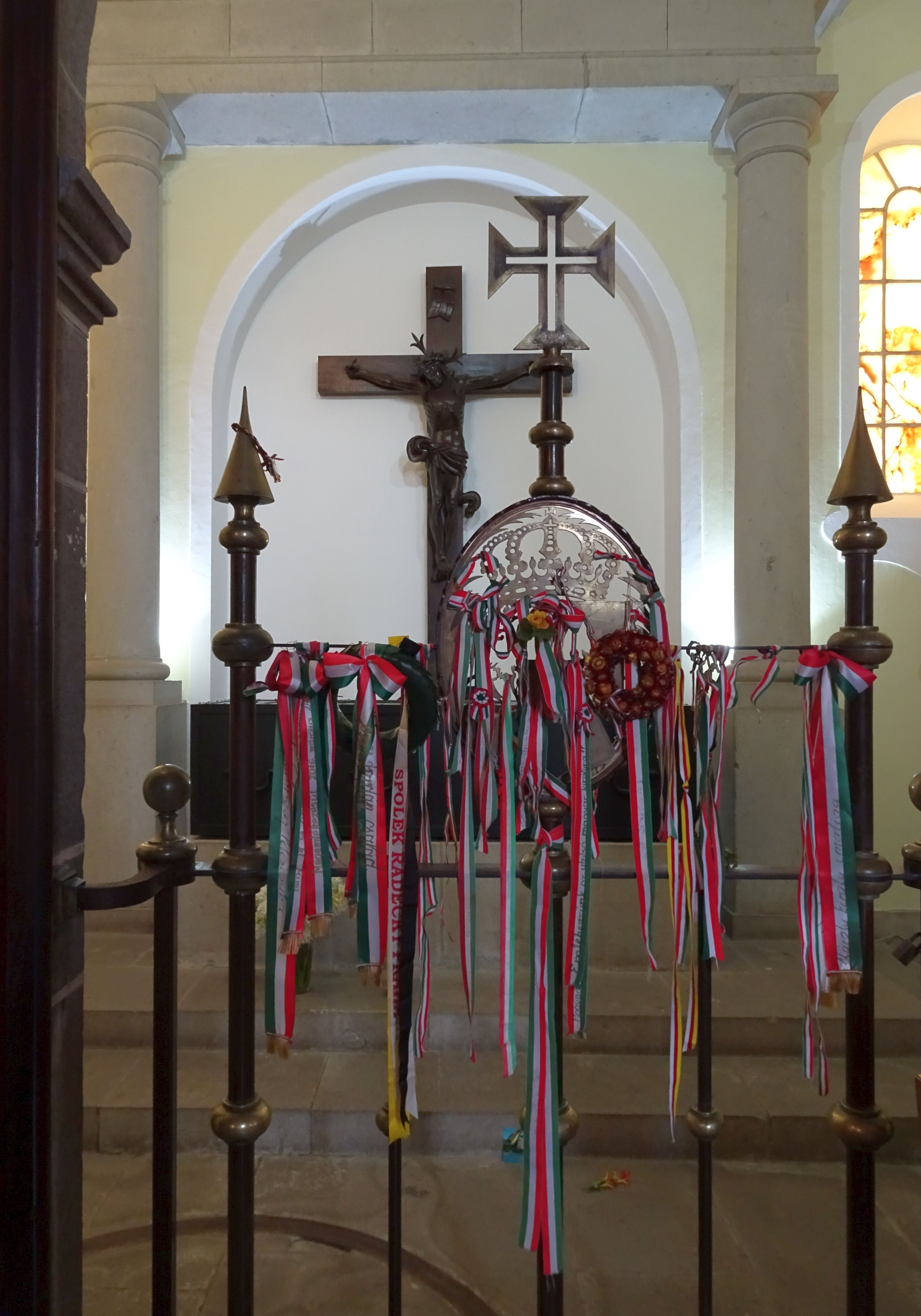 Chapel with the tomb of Charles I. Imperor of Austria-Hungary; Monte/Madeira in the church Igreja de Nossa Senhora do Monte